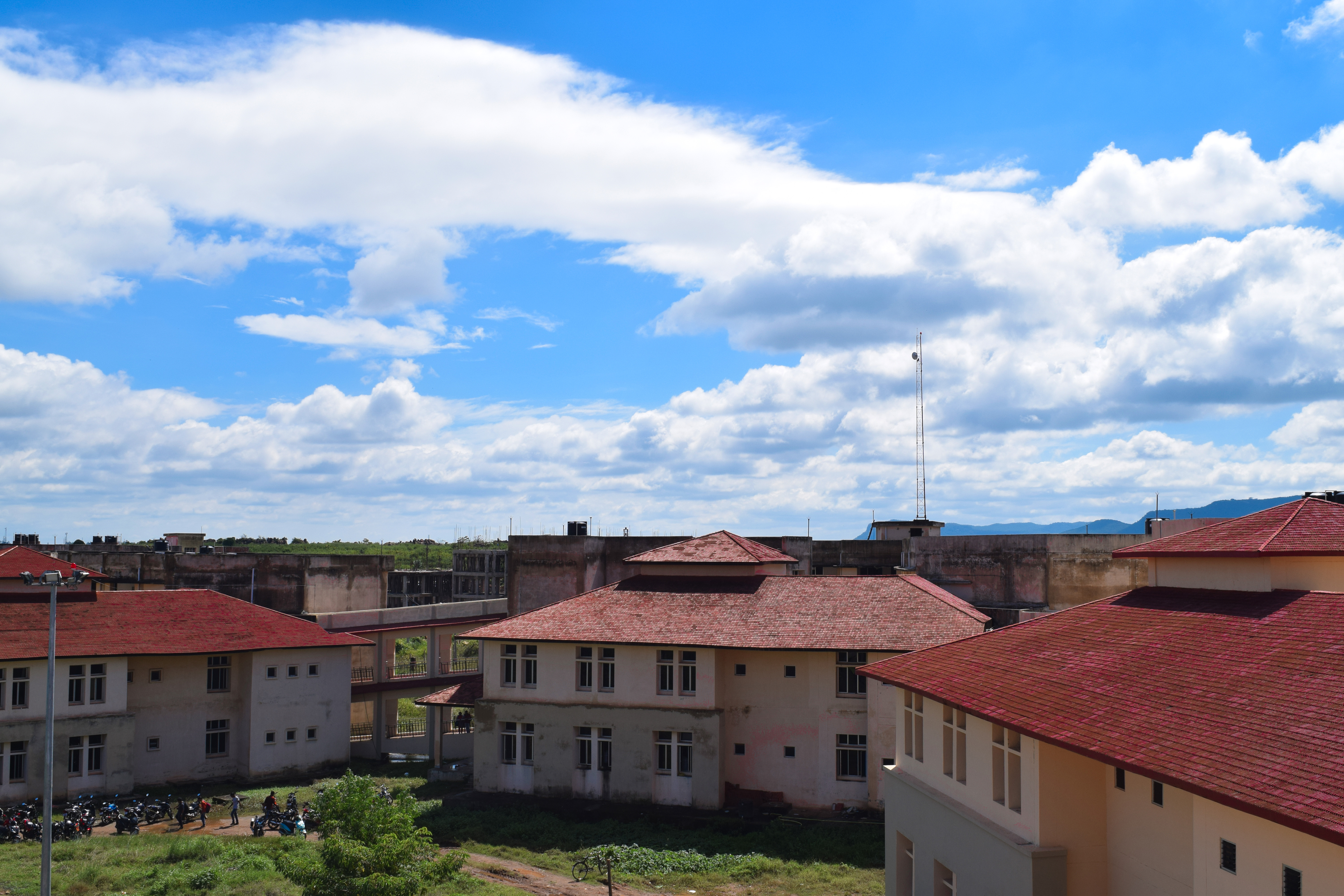 GCE, Keonjhar